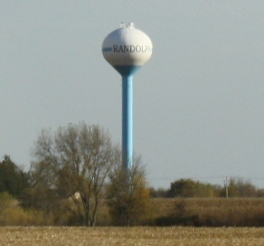 Looking at the water tower for Randolph, Wisconsin from Wisconsin Highway 33.